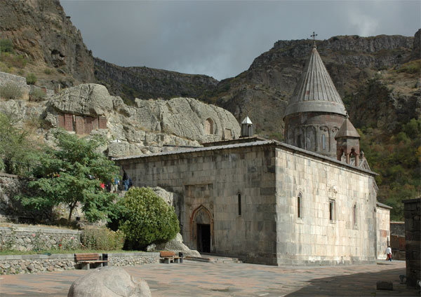 Geghard monastery, Armenia